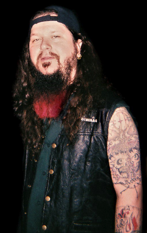 Dimebag Darrell (cropped picture)